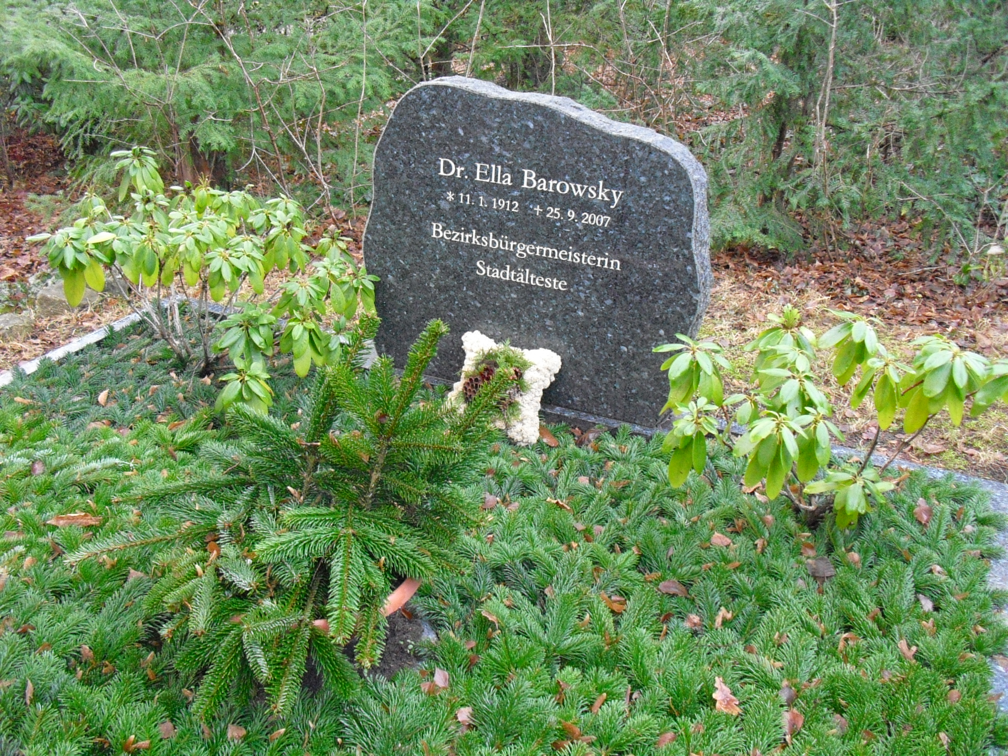 Grave of mayor Ella Barowsky in II. Städtischer Friedhof Eythstraße in Berlin-Schöneberg